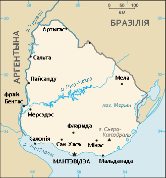 Map of Uruguay in Belarusian